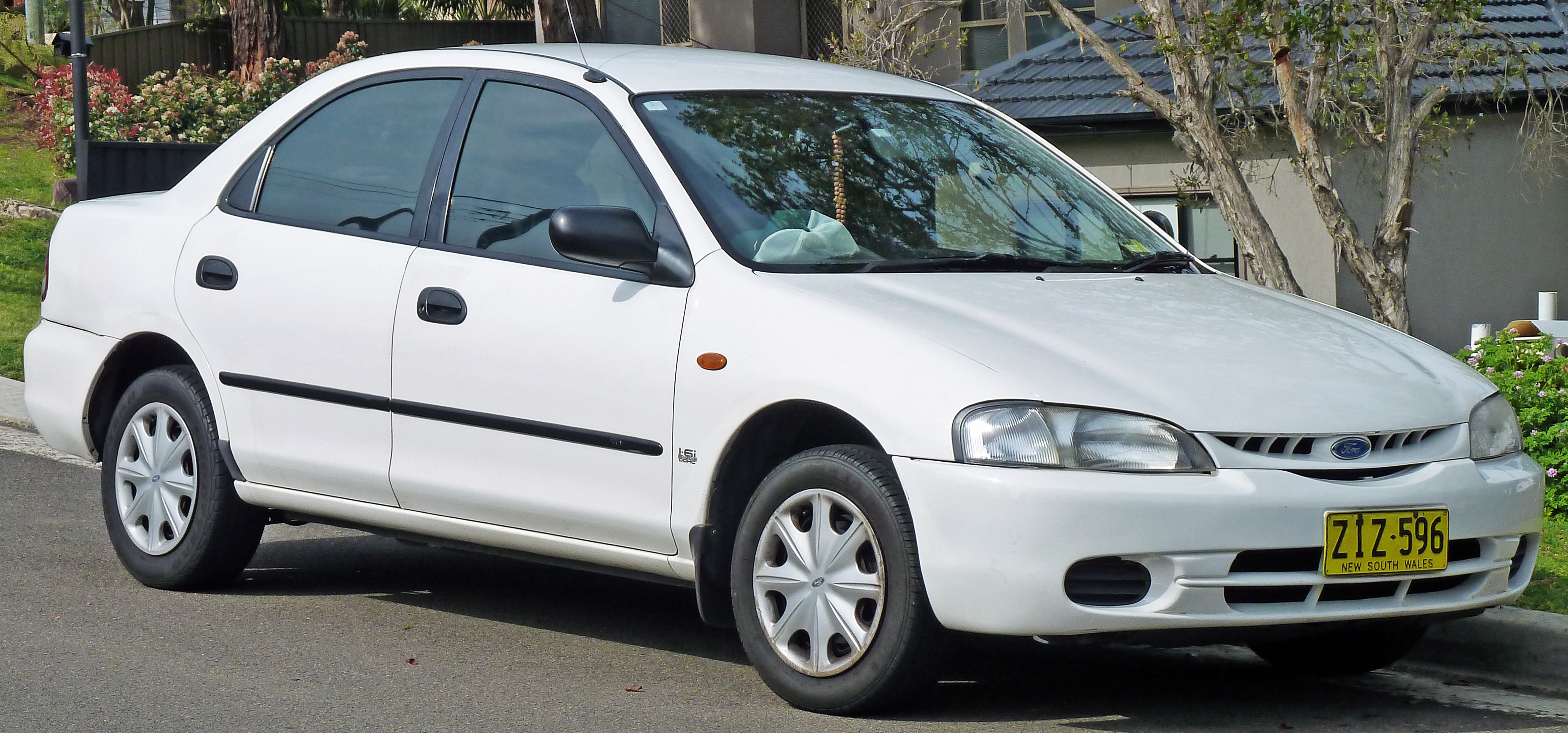 1997 Ford Laser (KJ II (KL)) LXi sedan. Photographed in Taren Point, New South Wales, Australia.